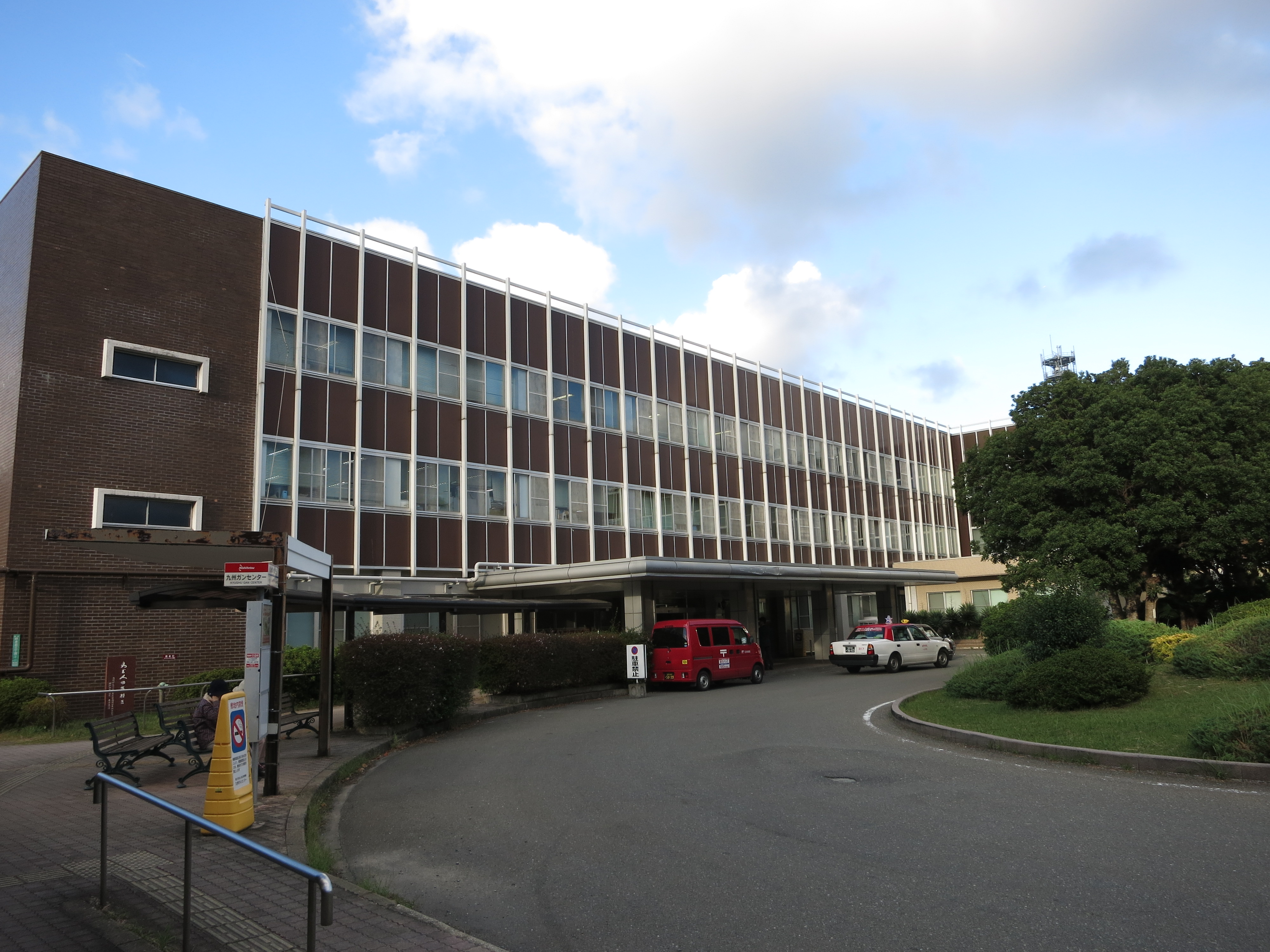 National Hospital Organization Kyushu Cancer Center